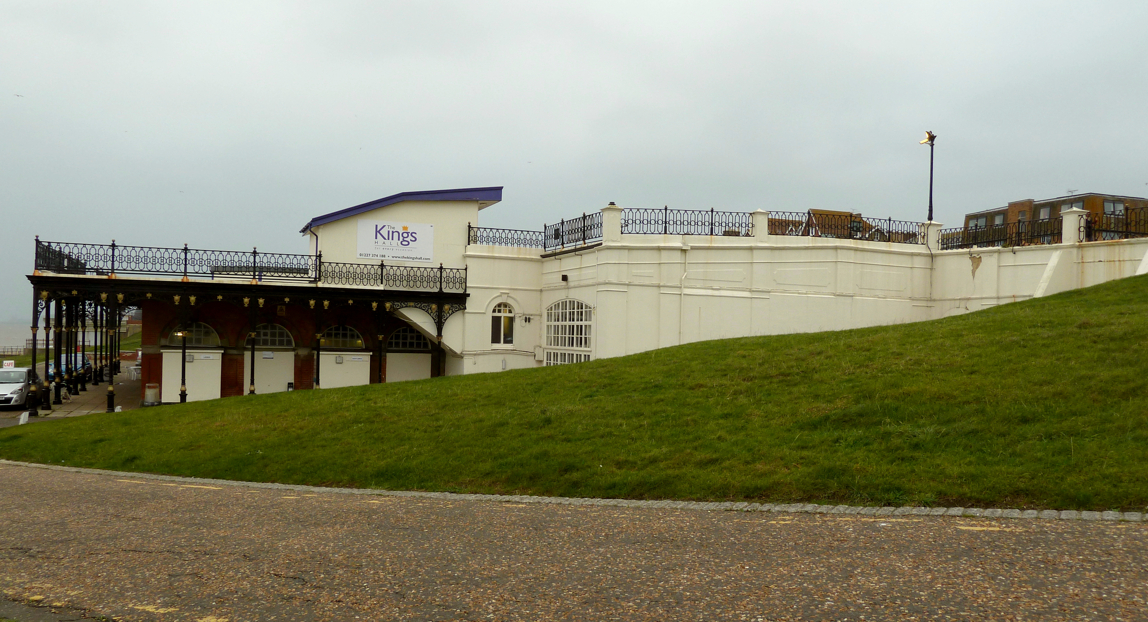 Kings Hall, Herne Bay, Kent England. Looking east, at west side of building.